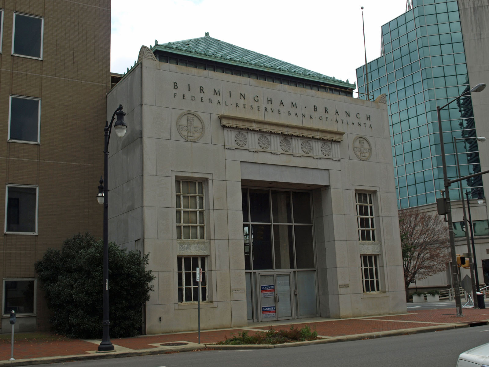 The Federal Reserve Bank of Atlanta Birmingham Branch in Birmingham, Alabama, listed on the National Register of Historic Places.